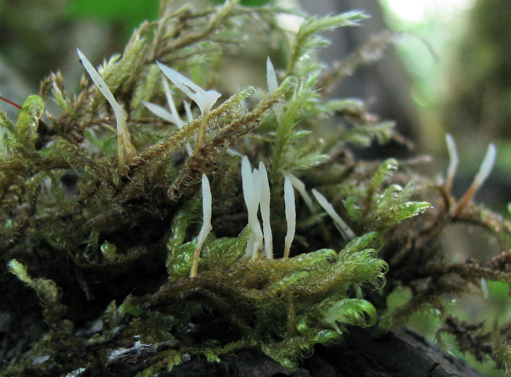 Eocronartium muscicola (Pers.) Fitzp. Image location: Nitinat River, Vancouver Island, British Columbia, Canada For more information about this, see the observation page at Mushroom Observer.